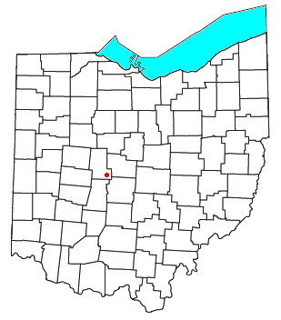 Locator map of the unincorporated community of New California in Union County, Ohio, United States.